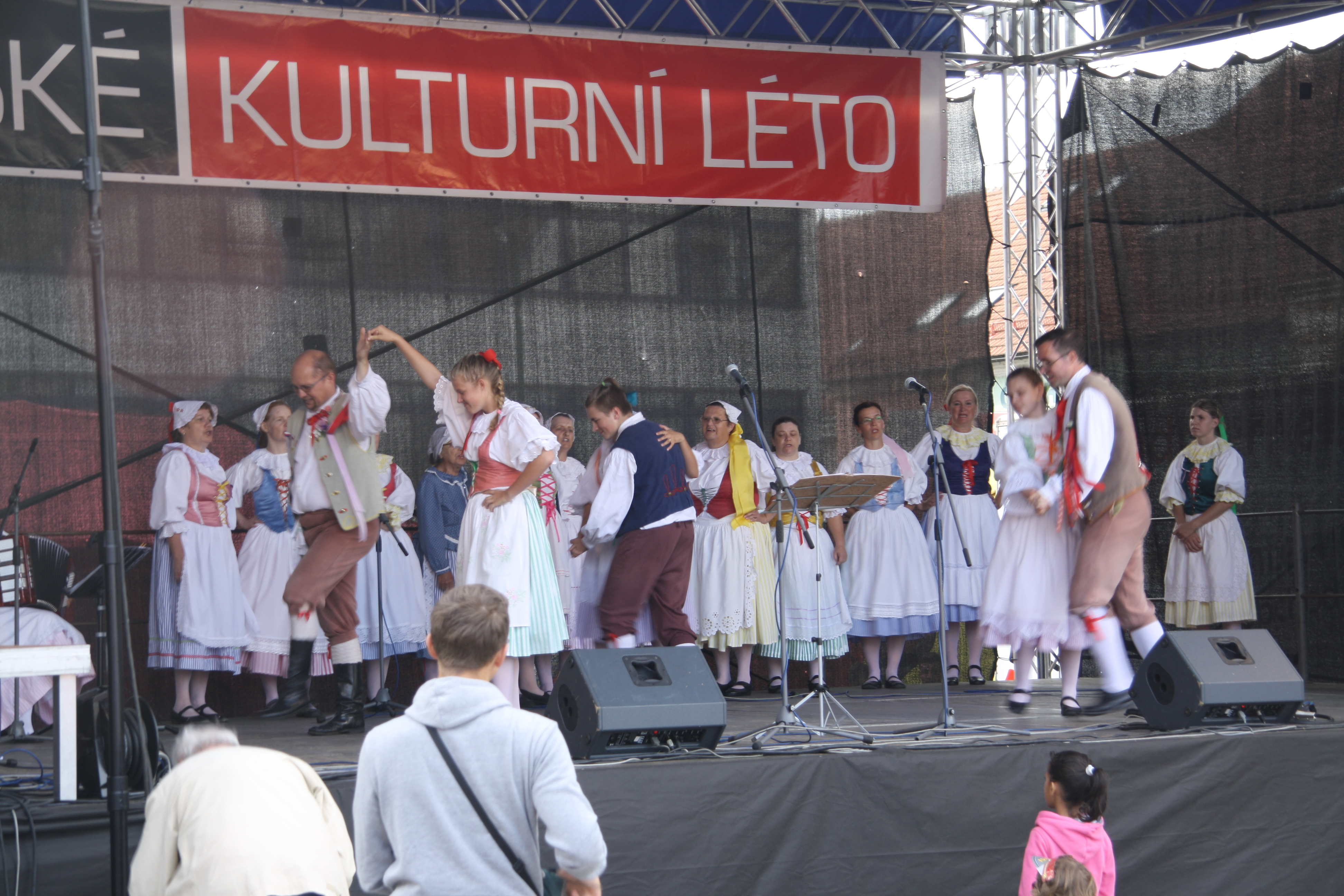 Dancers at podium of Bramborobraní 2016 at Karlovo Náměstí in Třebíč, Třebíč District.